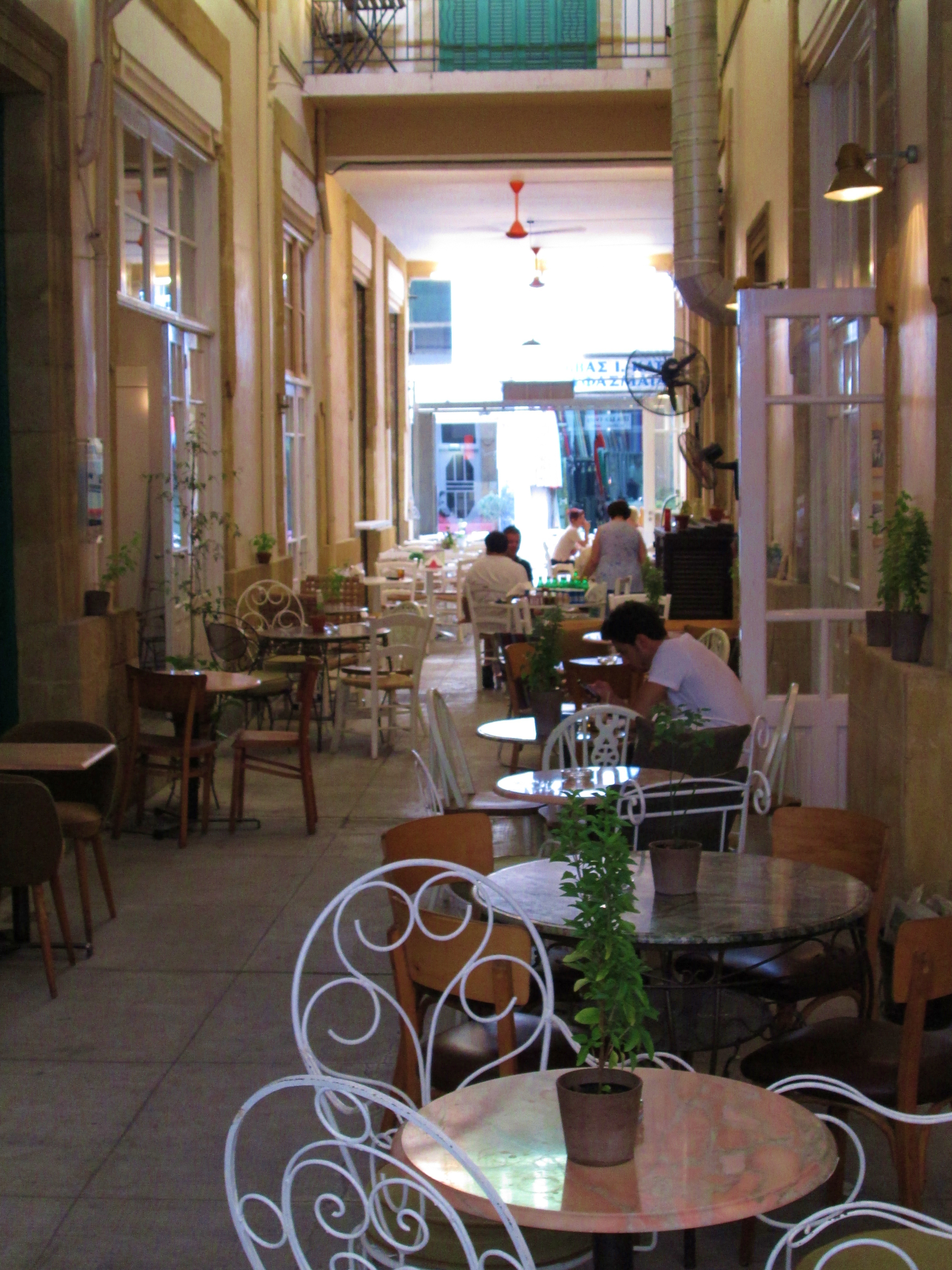 Cafes in a stoa small path in Nicosia Republic of Cyprus